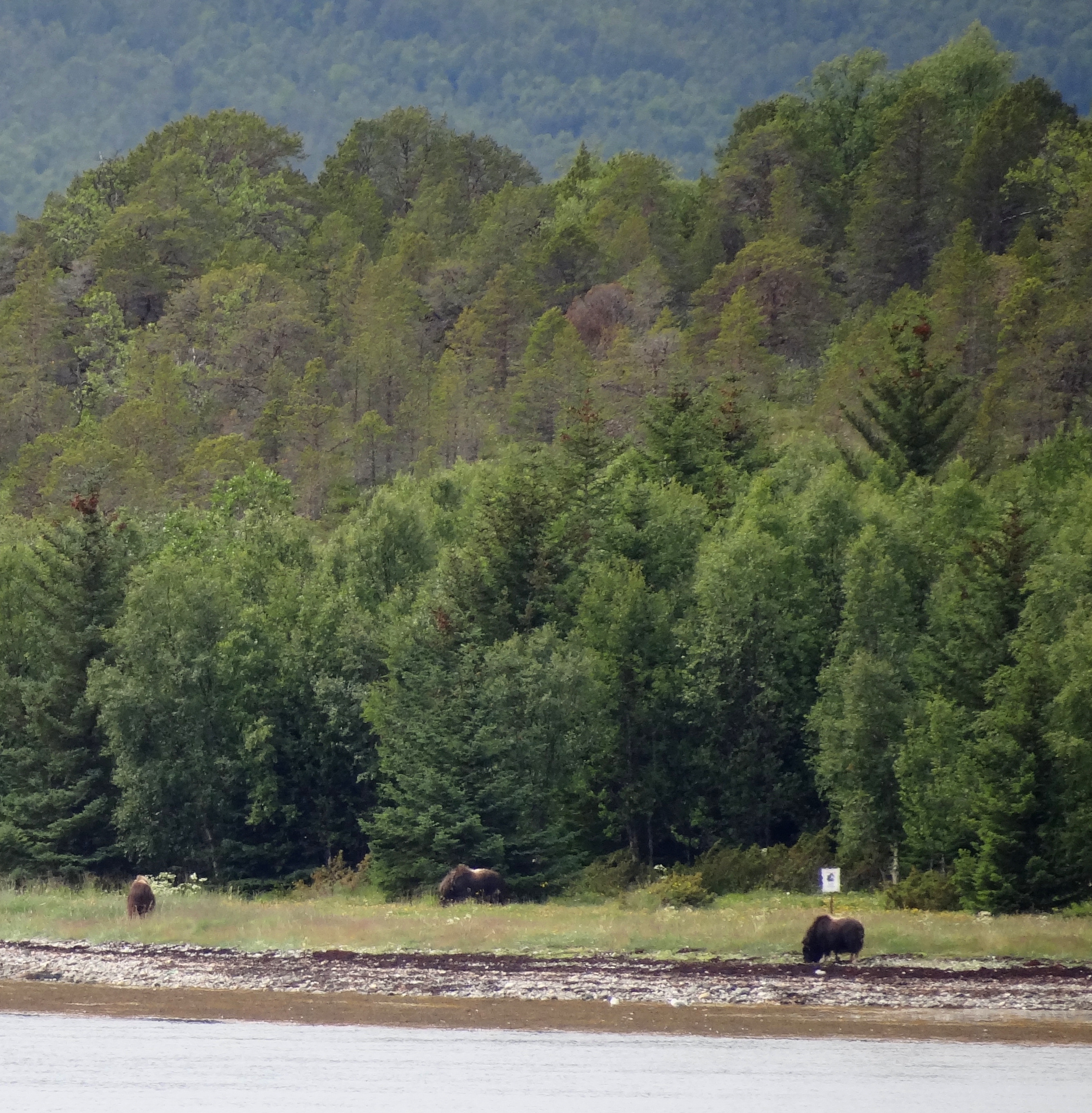 Muskoxen on Ryøya in Troms, Norway, observed from the Larseng ferry. The island is a reserve and experiment run by the University of Tromsø.